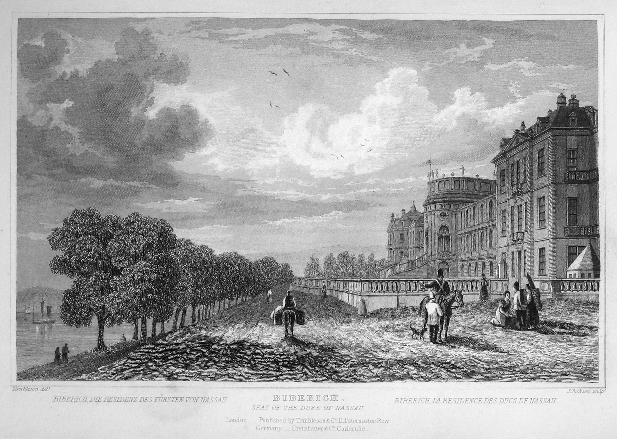 Steel engraving from "Views of the Rhine" by William Tombleson (around 1840): Castle of Biebrich